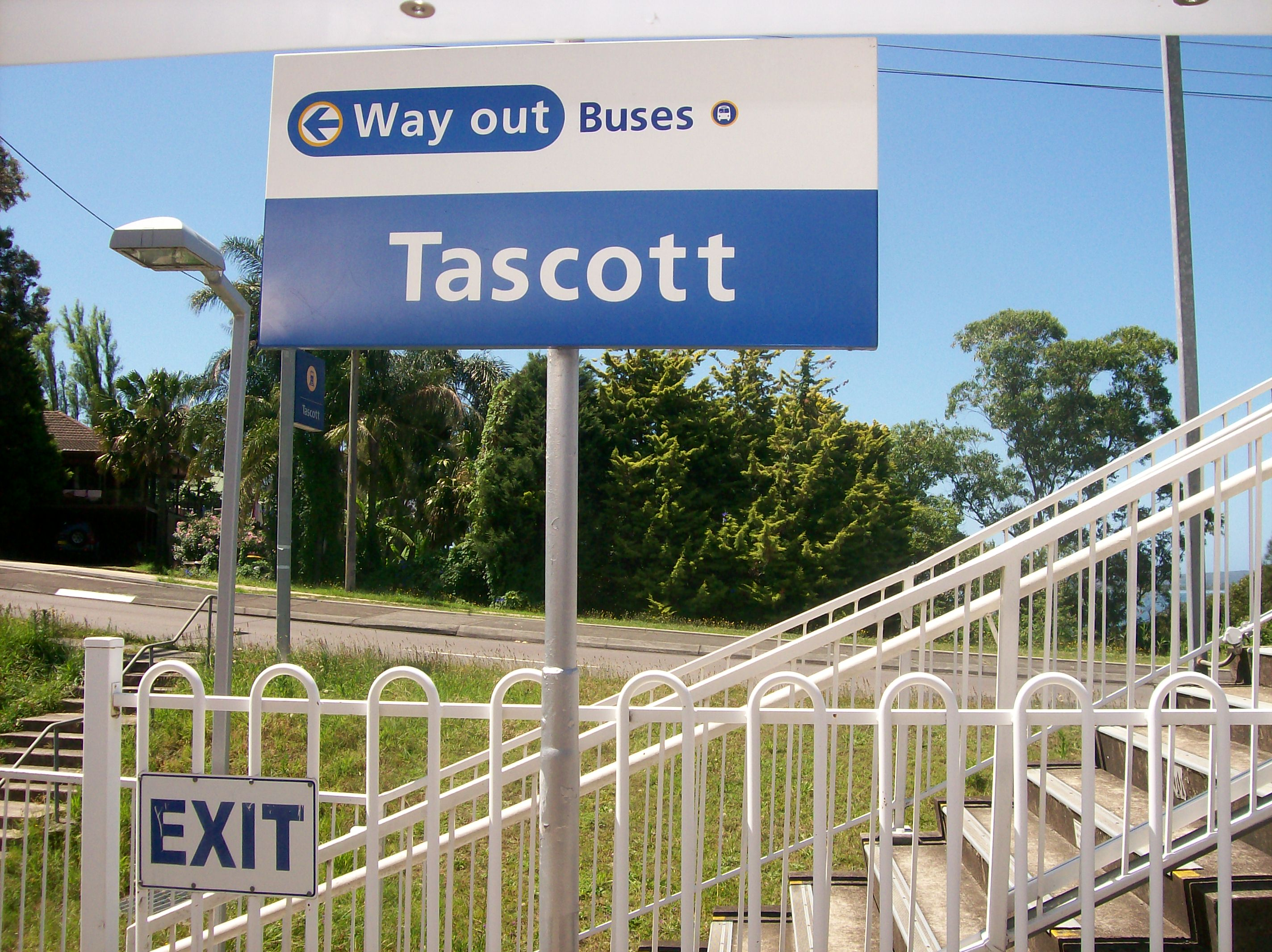 Tascott station sign